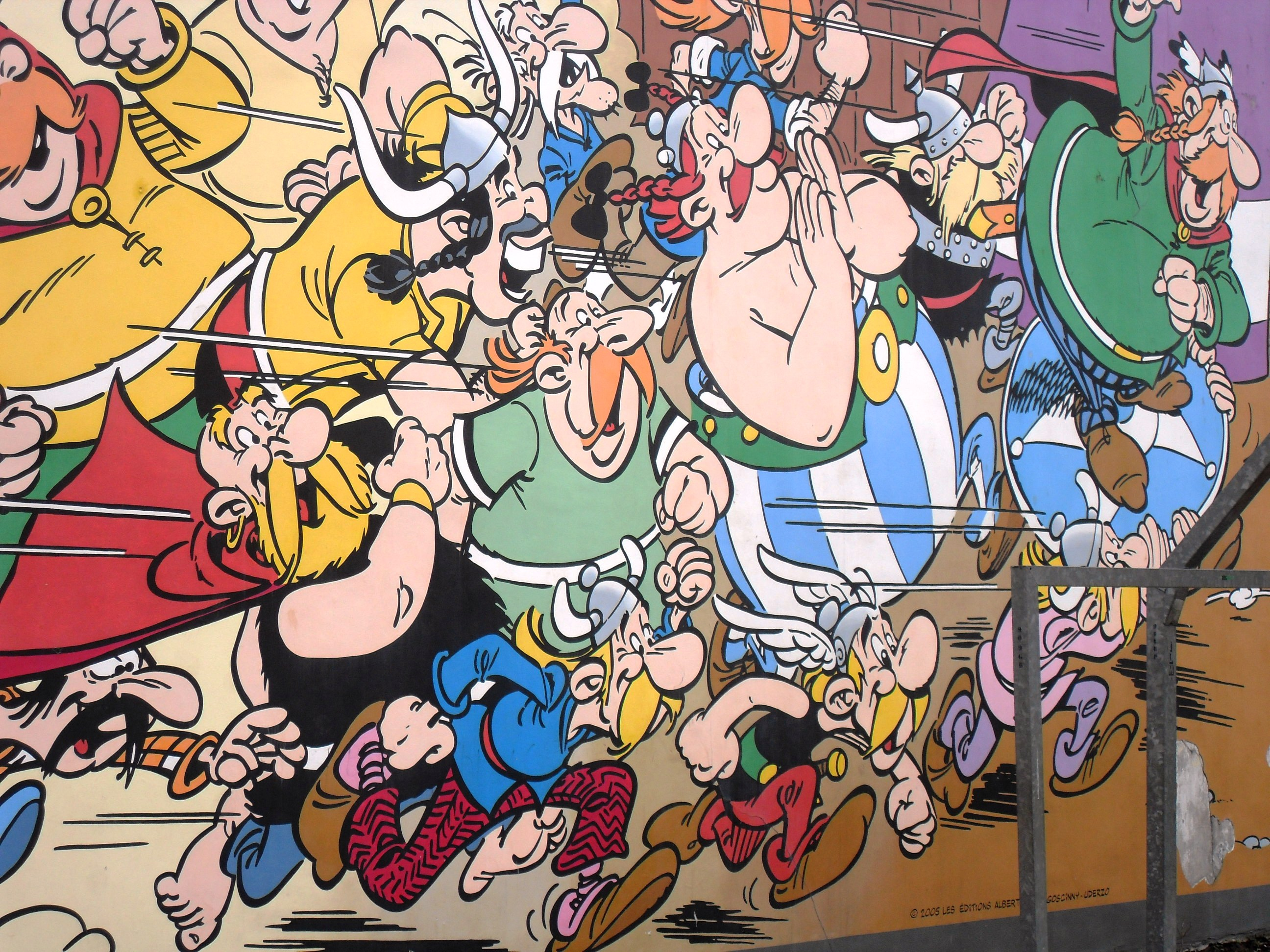 Asterix & Obelix mural painting. Location: street Buanderie 33/35, Brussels. Surface: ± 145 m². Realisation: Oreopoulos G., Vandegeerde D., Marcelle Bordier and Koen Weiss. Year: September 2005. Comment: Astérix or The Adventures of Asterix (French: Astérix or Astérix le Gaulois) is a series of French comic books written by René Goscinny and illustrated by Albert Uderzo (Uderzo also took over the job of writing the series after the death of Goscinny in 1977).